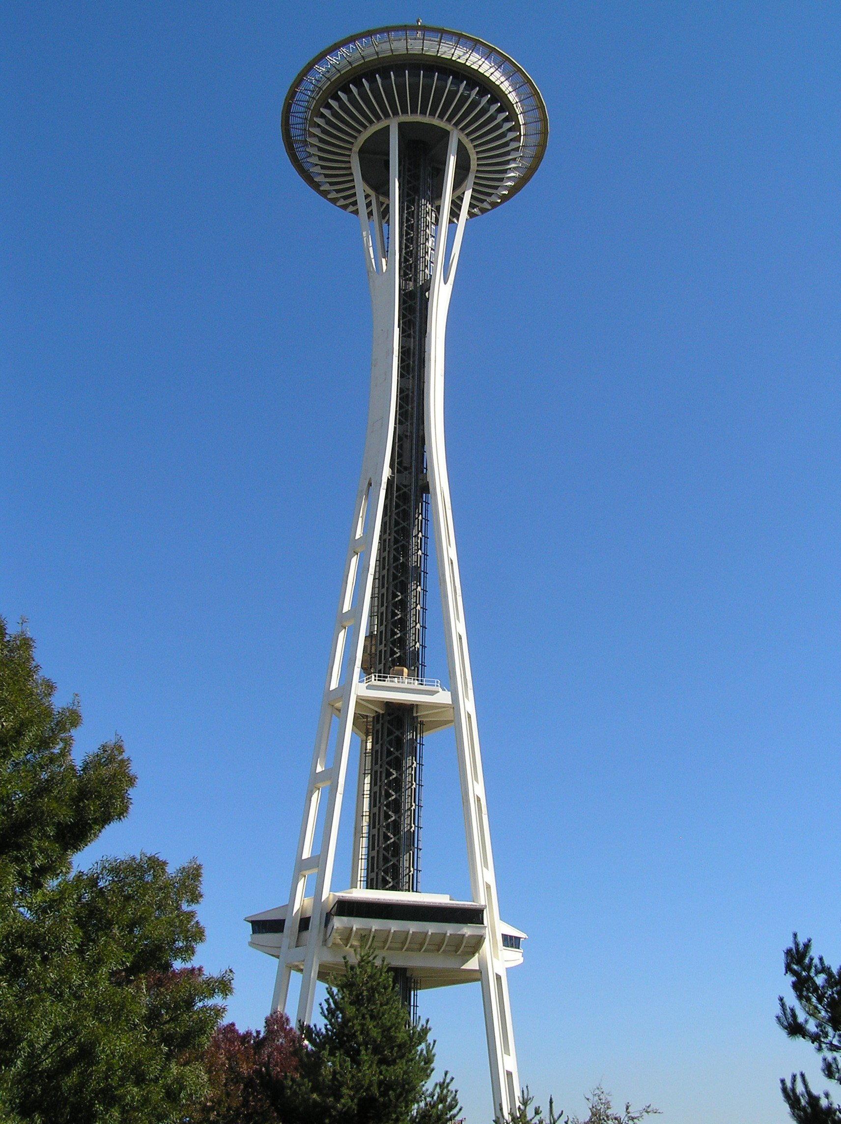 Seattle Space Needle